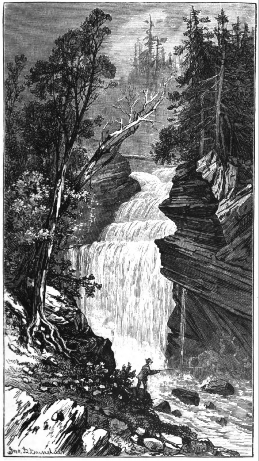 1875 engraviong of Ganoga Falls (94 feet (28.7 m) tall) on Kitchen Creek in Ricketts Glen State Park, Fairmount Township, Luzerne County, Pennsylvania, USA. It is the seventh of ten named waterfalls in Ganoga Glen on Kitchen Creek, going upstream from Waters Meet, and one of twenty two named waterfalls in the park, according to the Pennsylvania Department of Conservation and Natural Resources. It is the tallest waterfall in the park.